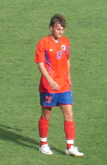 Nemanja Bilbija